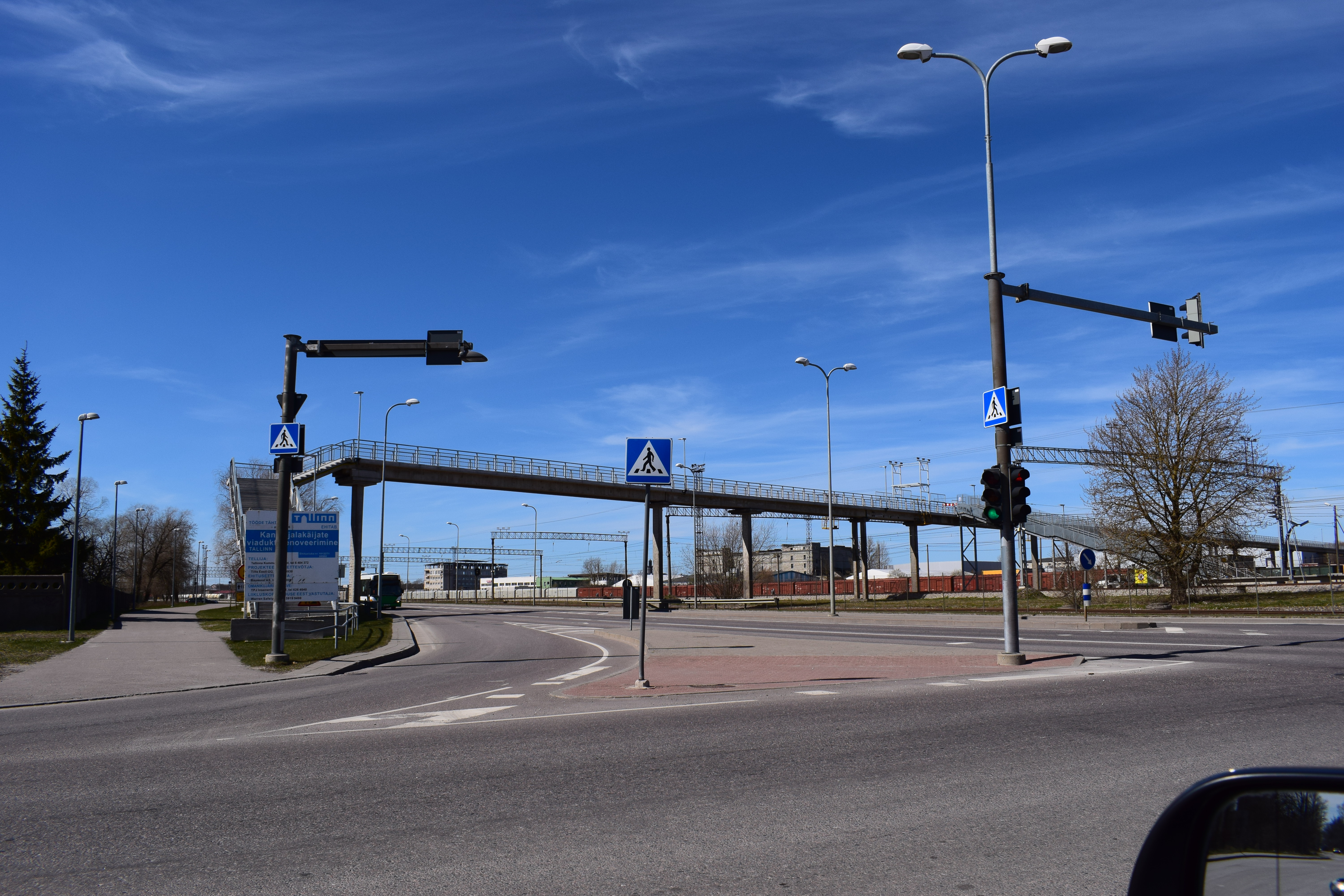 Suur-Sõjamäe tänav